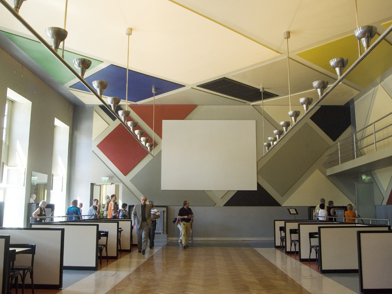 Ciné-dancing (cinema-dance hall; also called Grande Salle or Ciné-bal) in L'Aubette, Place Kléber, Strasbourg, designed by Theo van Doesburg 1926-1927 and executed 1927-1928, destroyed by 1938 and restored 1989-1994. Photo by Jean-Claude Hatterer.